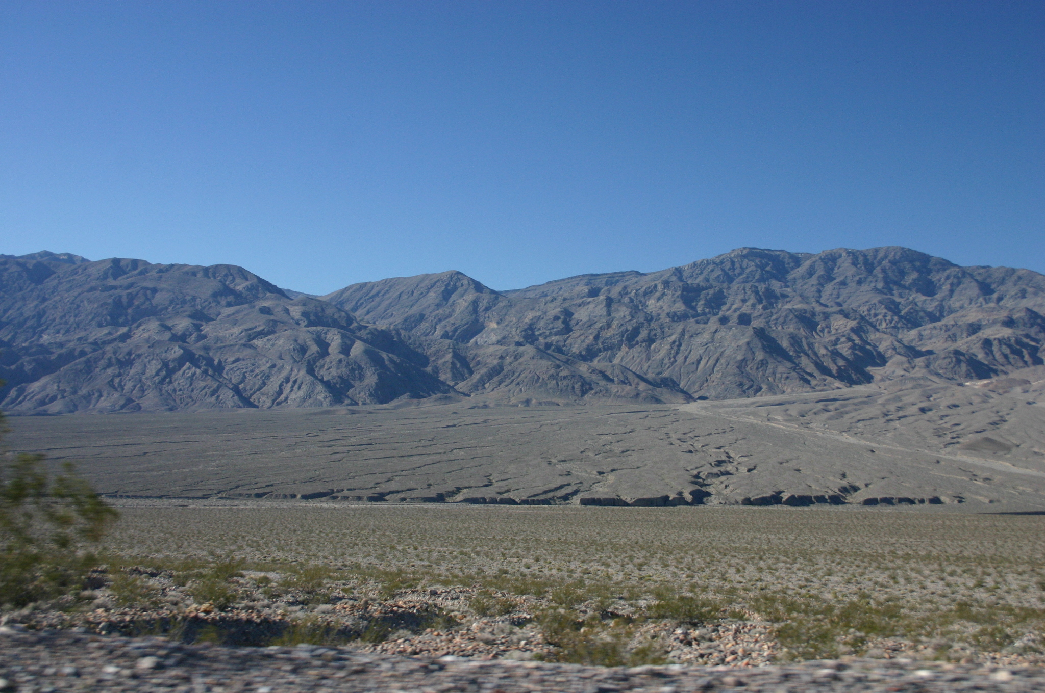 A gigantic alluvial fan emerging from the Panamint Range in Death Valley National Park, California, USA. The toe of the alluvial fan has been eroded by a recent stream, creating the prominent scarps visible at the base of the fan.